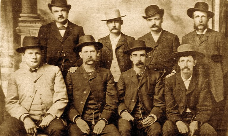 Dodge City Peace Commission, early June, 1883. The men went to Dodge armed to support Luke Short in a confrontation with business interests that wanted to force him out of town. The title of "peace commission" (later applied to the photo) was ironic. Their presence did produce a peaceful resolution. According to a biography of Wyatt Earp by Casey Tefertiller, the photo was taken in the Conkling Studio at Dodge City in June 1883 and first appeared in the National Police Gazette on 21 July, 1883. From left to right, standing: W.H. Harris, Luke Short, Bat Masterson, W.F. Petillon. Seated: Charlie Bassett, Wyatt Earp, Frank McLain (possibly "M. C. Clark"; see Dodge City Peace Commission), and Neal Brown It's a "published pre-1923" historical photo, so the release should read that. Sbharris 21:36, 3 March 2006 (UTC)